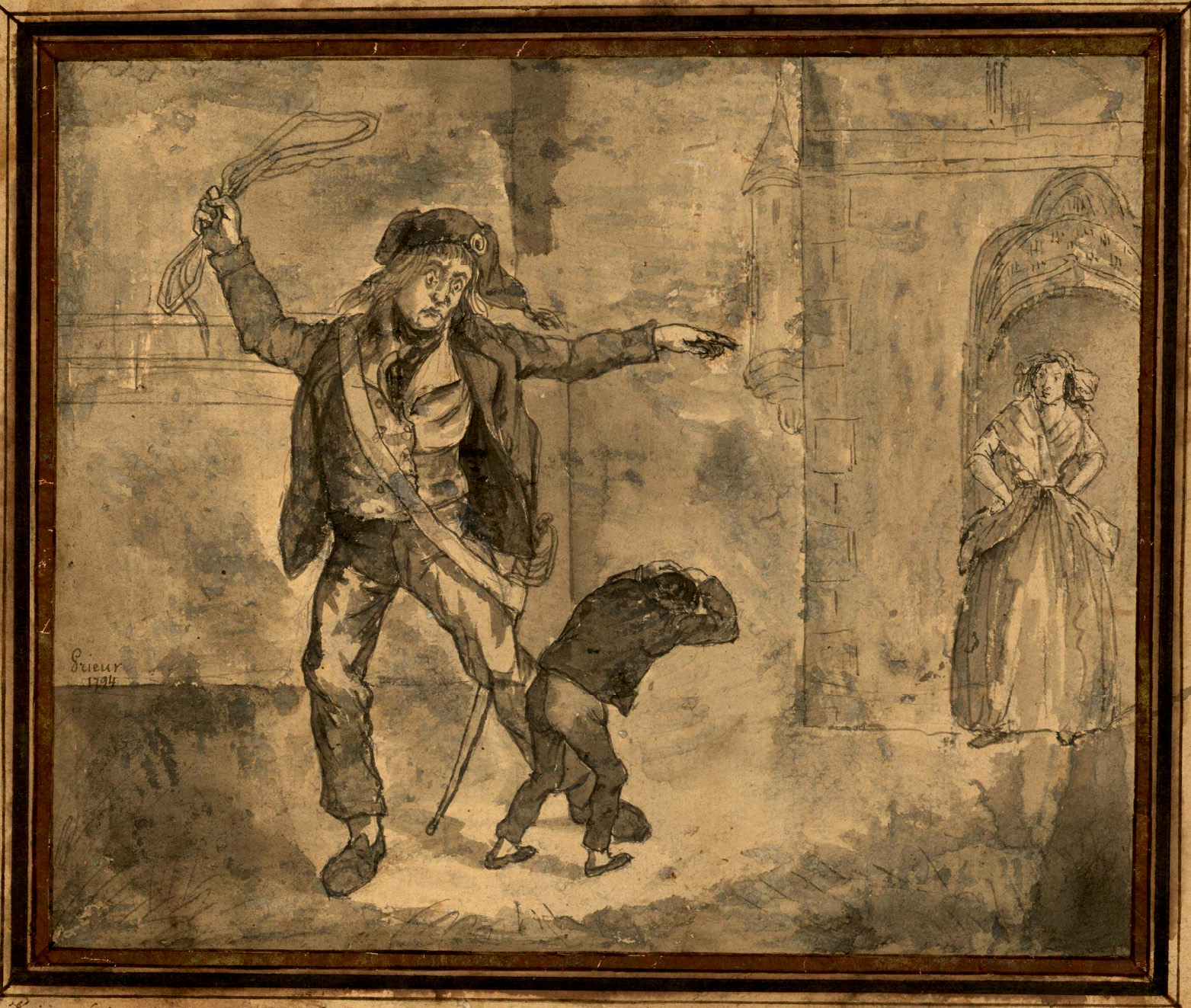 Simon le cordonnier et Louis XVII au Temple